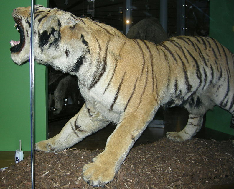 The Leeds City Museum tiger. It was presented in the 19th century as a tigerskin rug, and later acquired the dubious legend that it had been a killer.